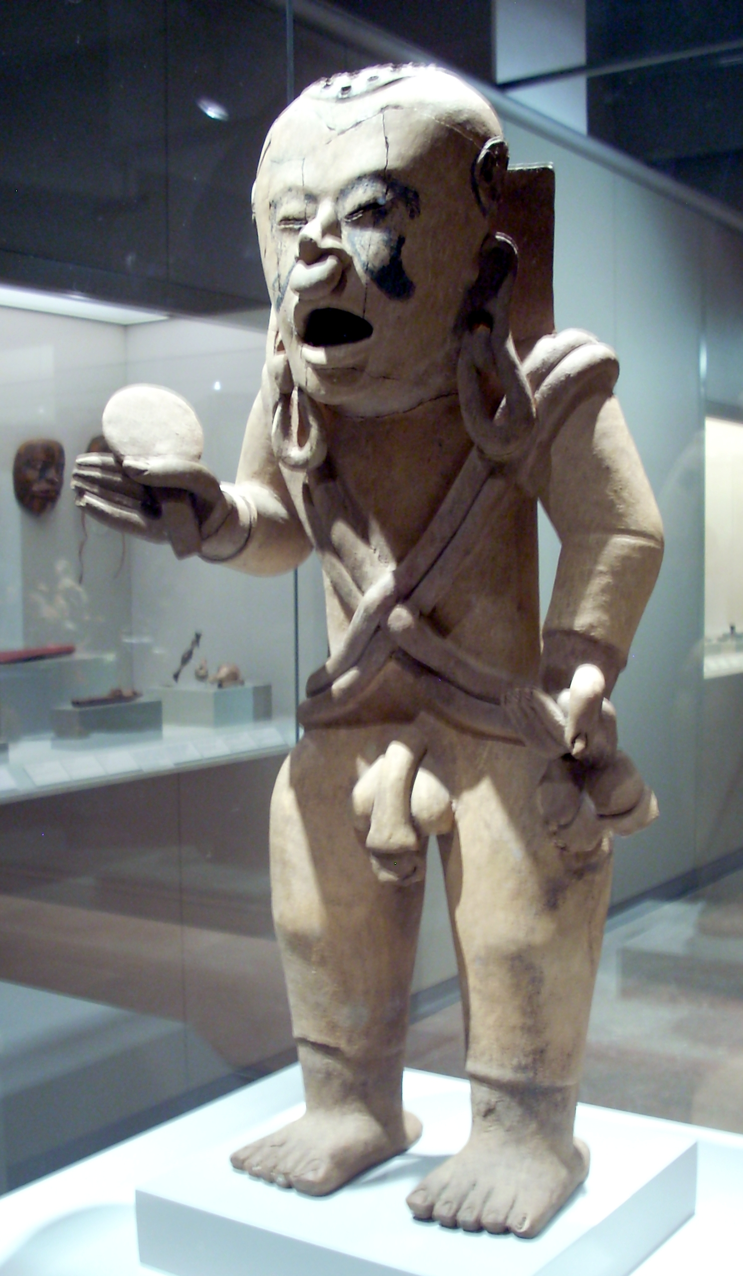 Xipe Totec, Our Lord the Flayed One. Ceramic figure, Remojadas phase, Gulf Coast of Mexico. Veracruz 100-400 AD. Item 1991/11/48 in the Museum of the Americas, Madrid.